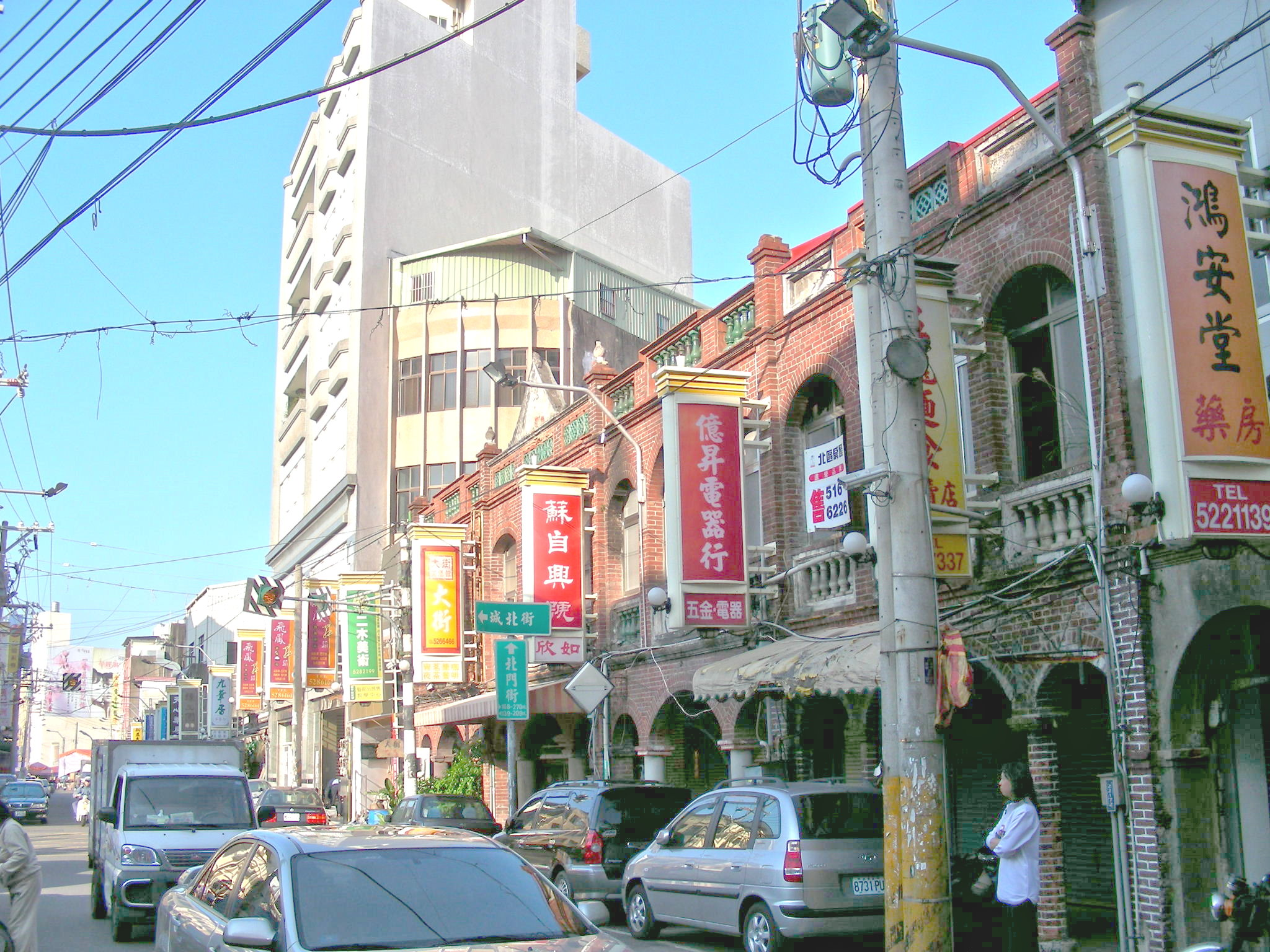 Bei Men Street, North District, Hsinchu City, Taiwan